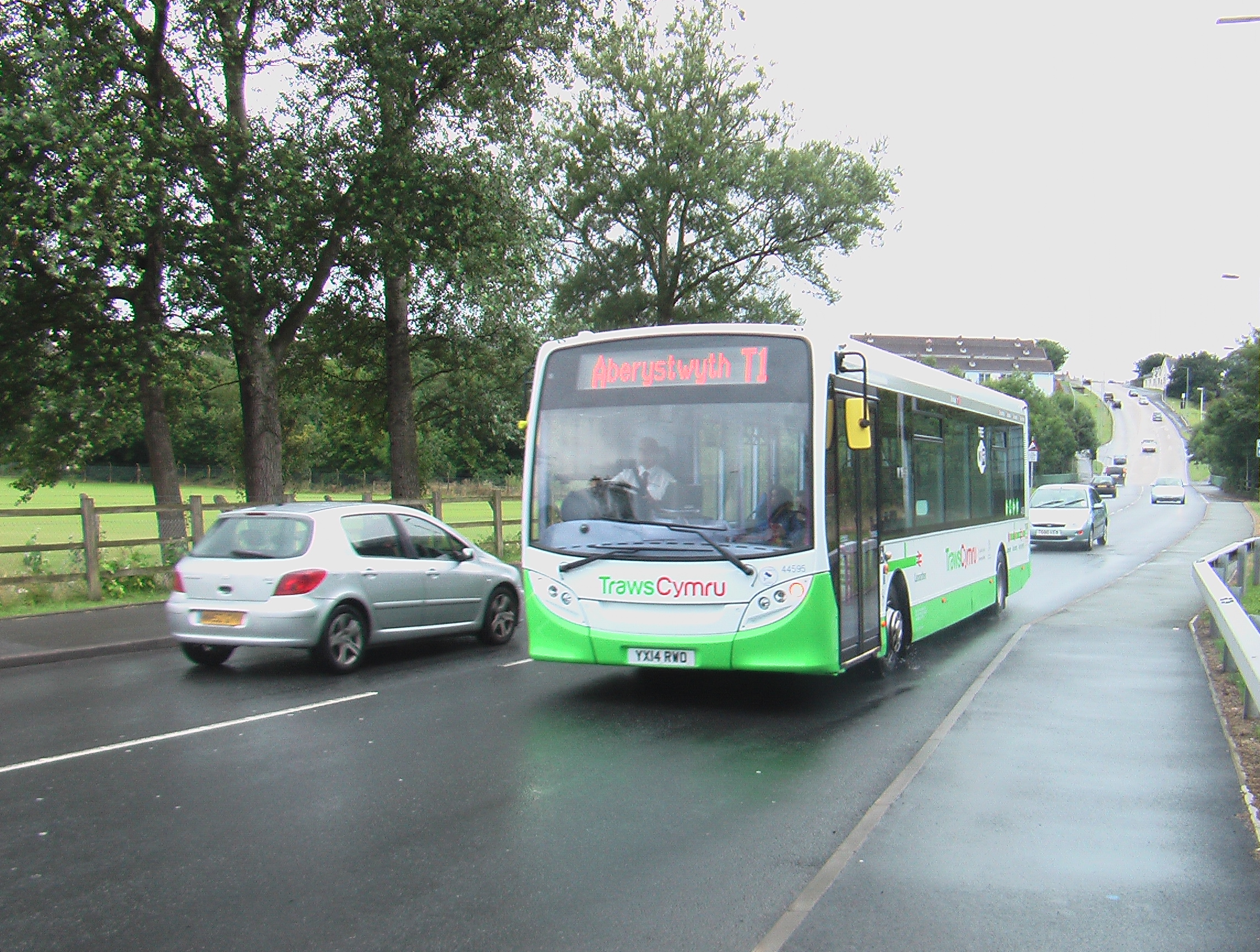 Enviro 200 YX14RWO working the TrawsCymru T1 service from Carmarthen to Aberystwyth. Seen here approaching the roundabout at Aberystwyth Morrisons.